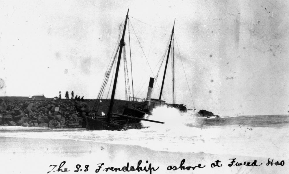 Friendship (ship) Wreck of the steamer, Friendship, at Tweed Heads on 2 June 1912. The crew were rescued by rocket brigade. (Description supplied with photograph).